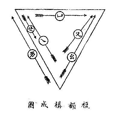 Chinese vowel diagram 2